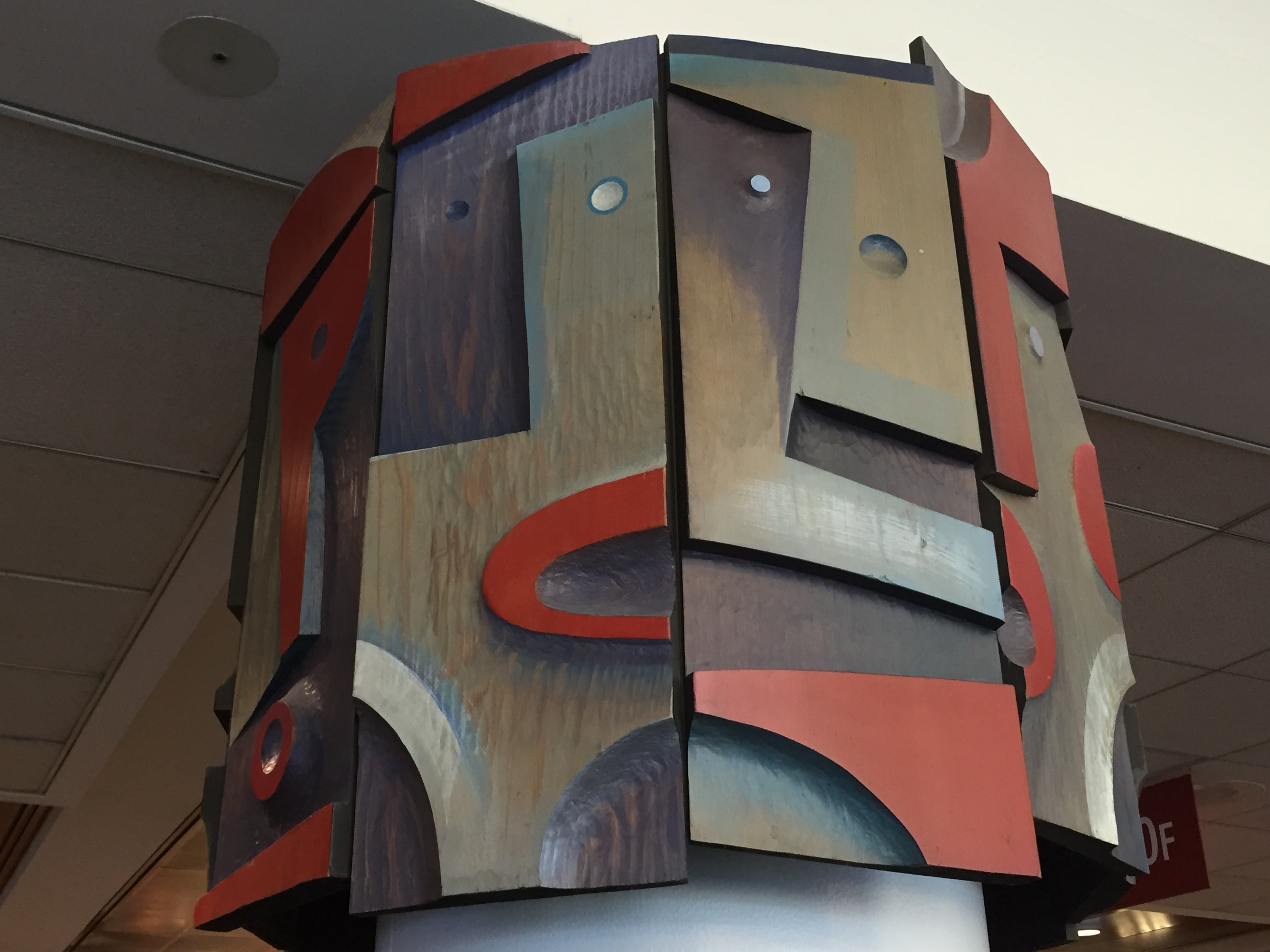 Modern Mask by Robert James Schoppert. The piece is wrapped around a pillar at gate C10F in SeaTac airport.